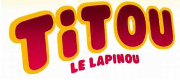 title